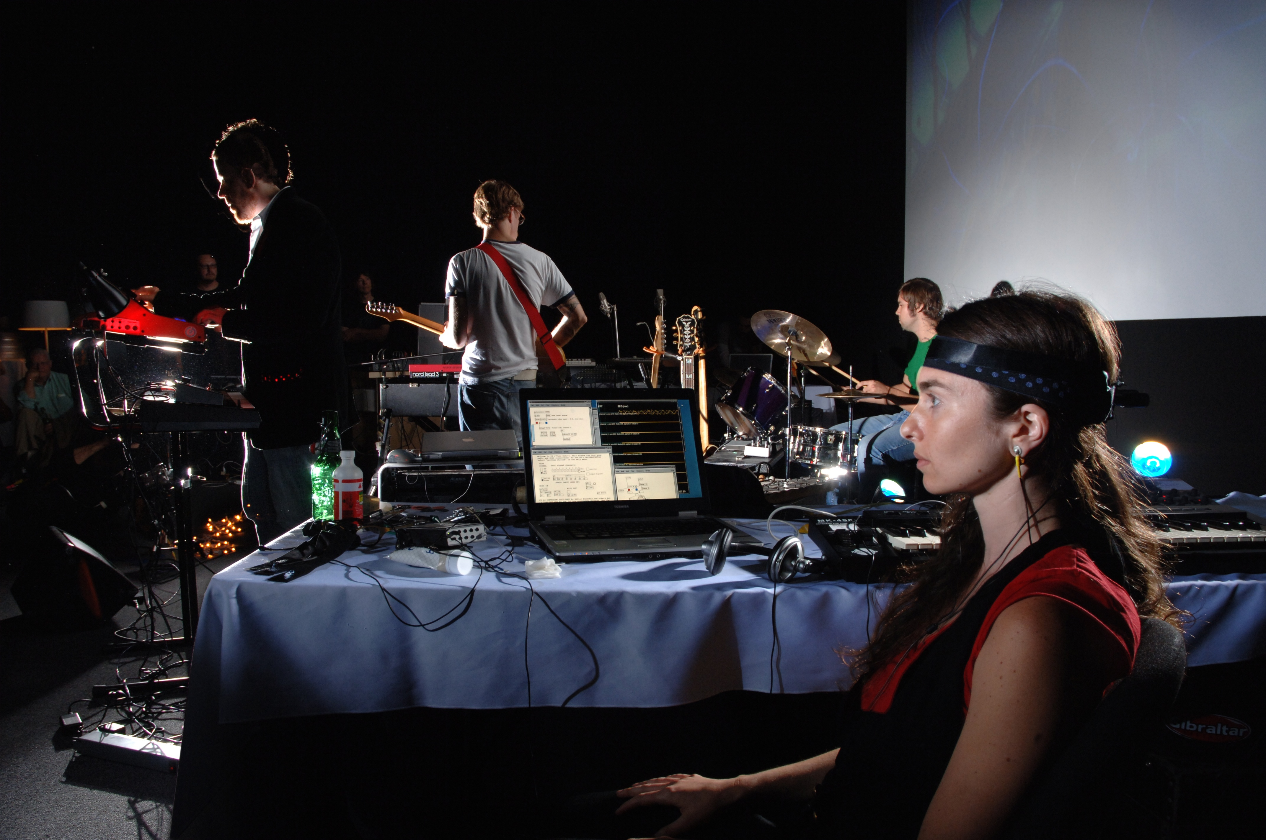 Quintist Ariel Garten performing Regenerative Brainwave Music with live band at The Power Plant